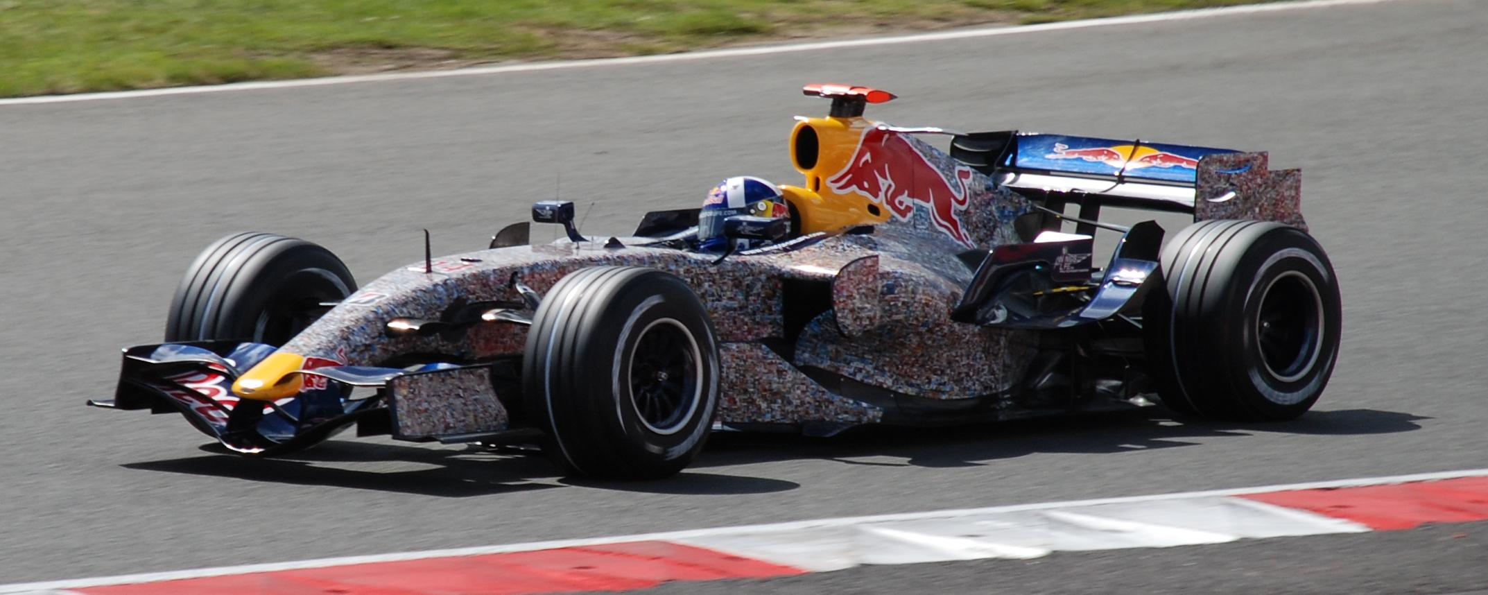 David Coulthard driving for Red Bull Racing at the 2007 British Grand Prix.